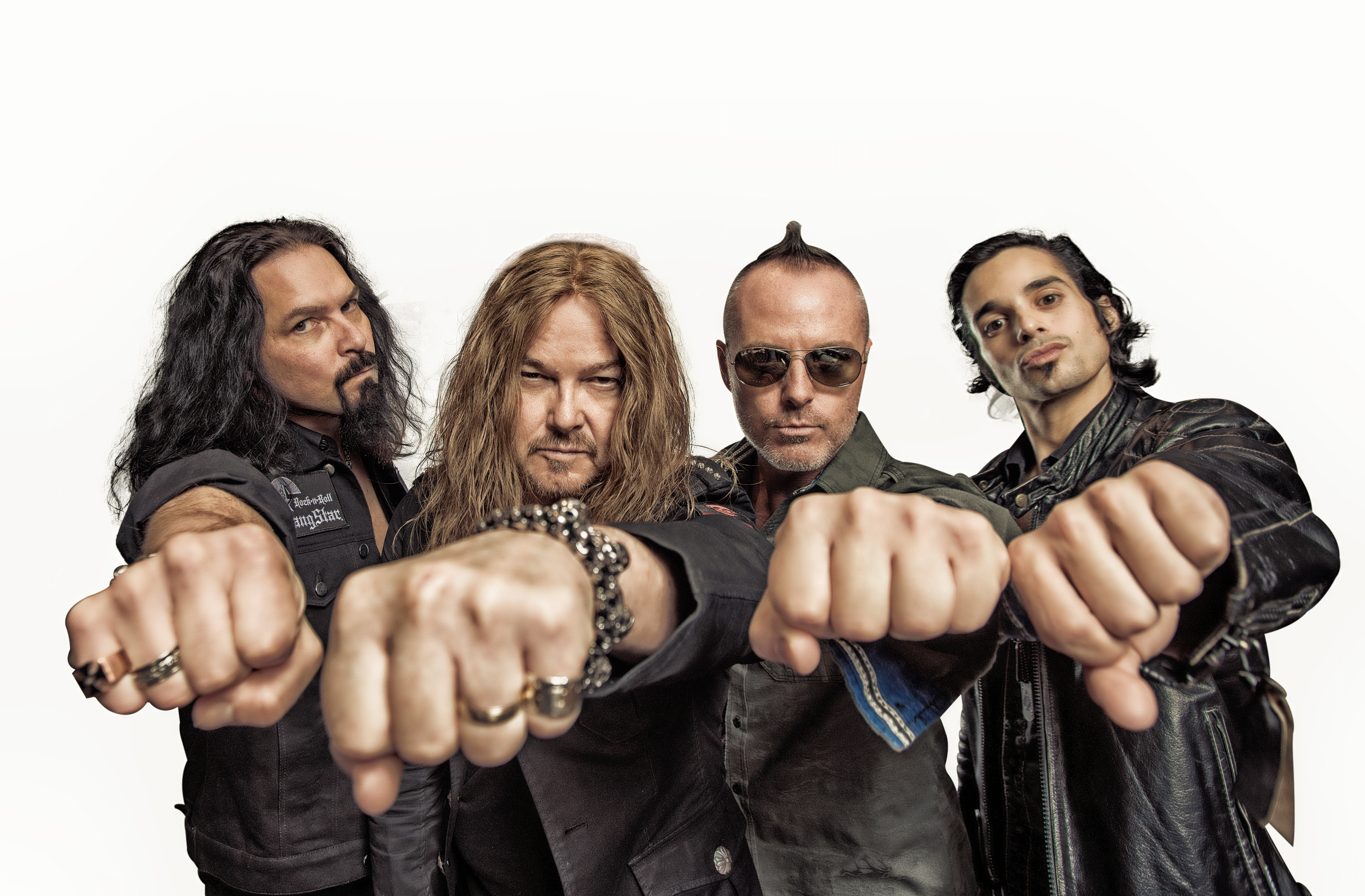 The Rock Band Foundry in 2019. From left to right; Bjorn Englen, Mark Boals, Marc Brattin, Chris Iorio.